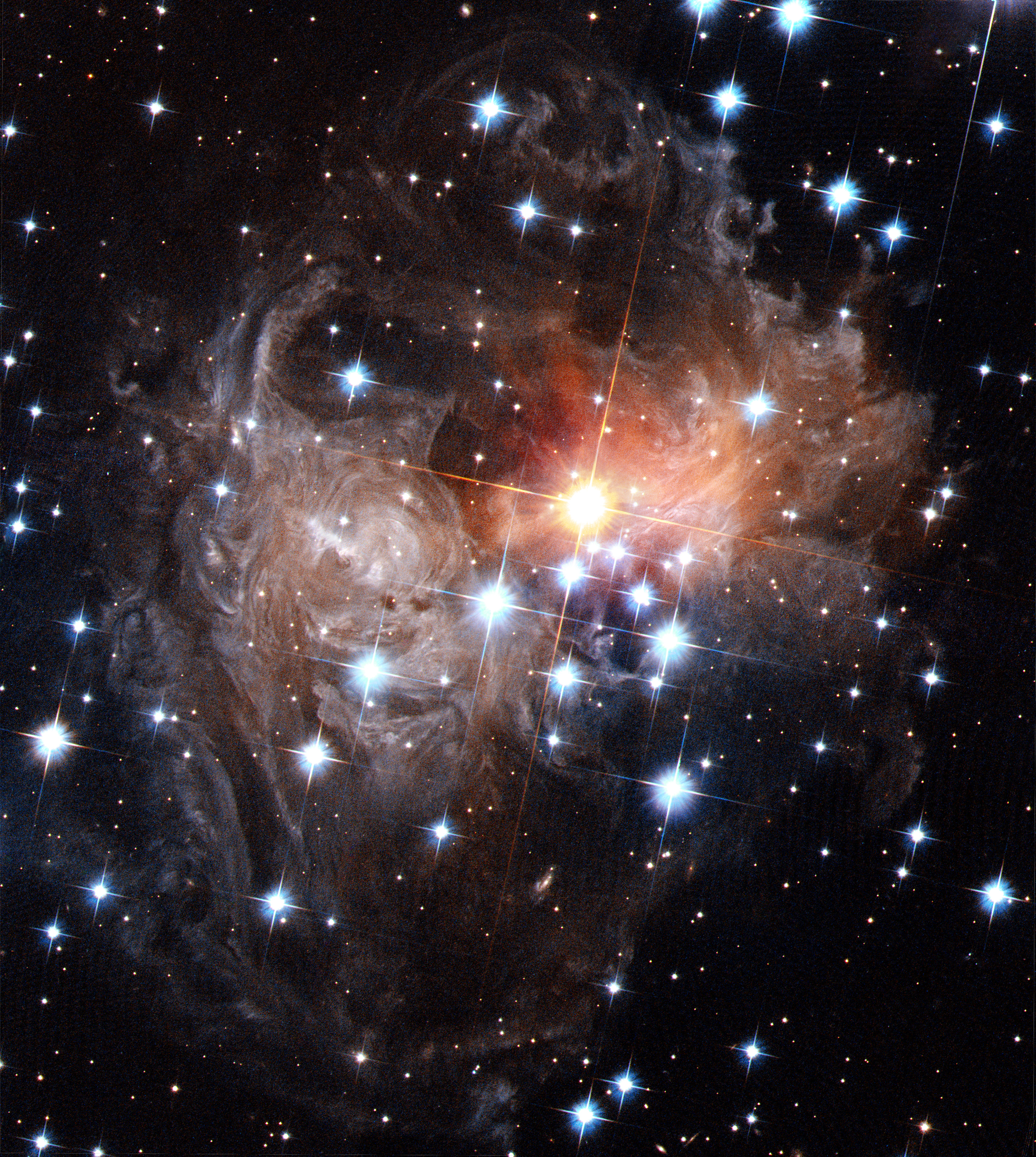 The light echo around the star V838 Monocerotis as seen by the Hubble Space Telescope in September 2006.